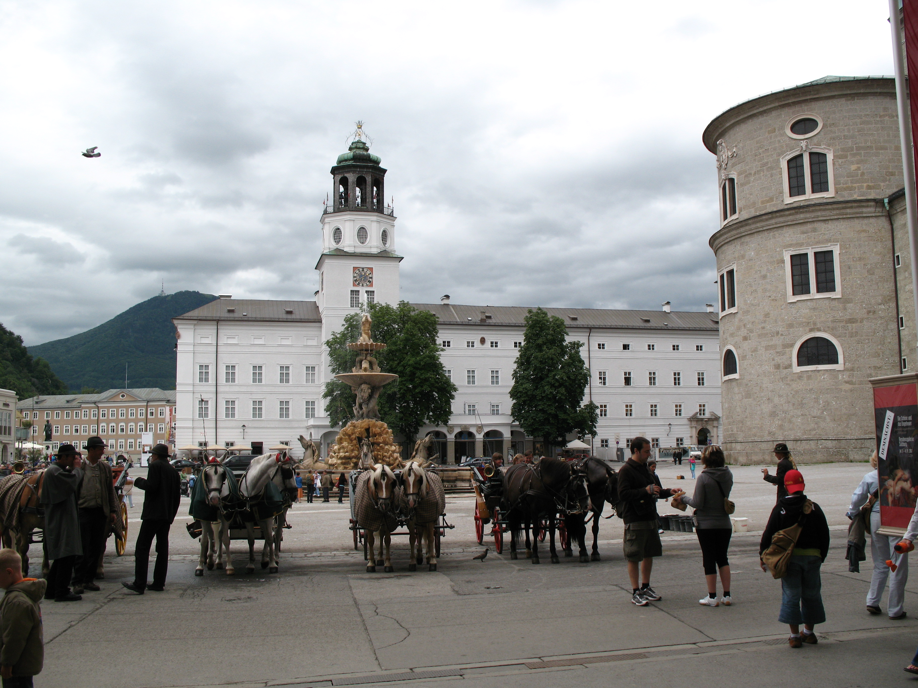 Austria, Salzburg, Residenzplatz